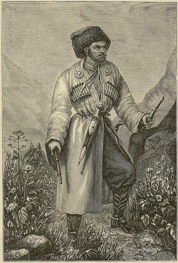 Hadji Murad